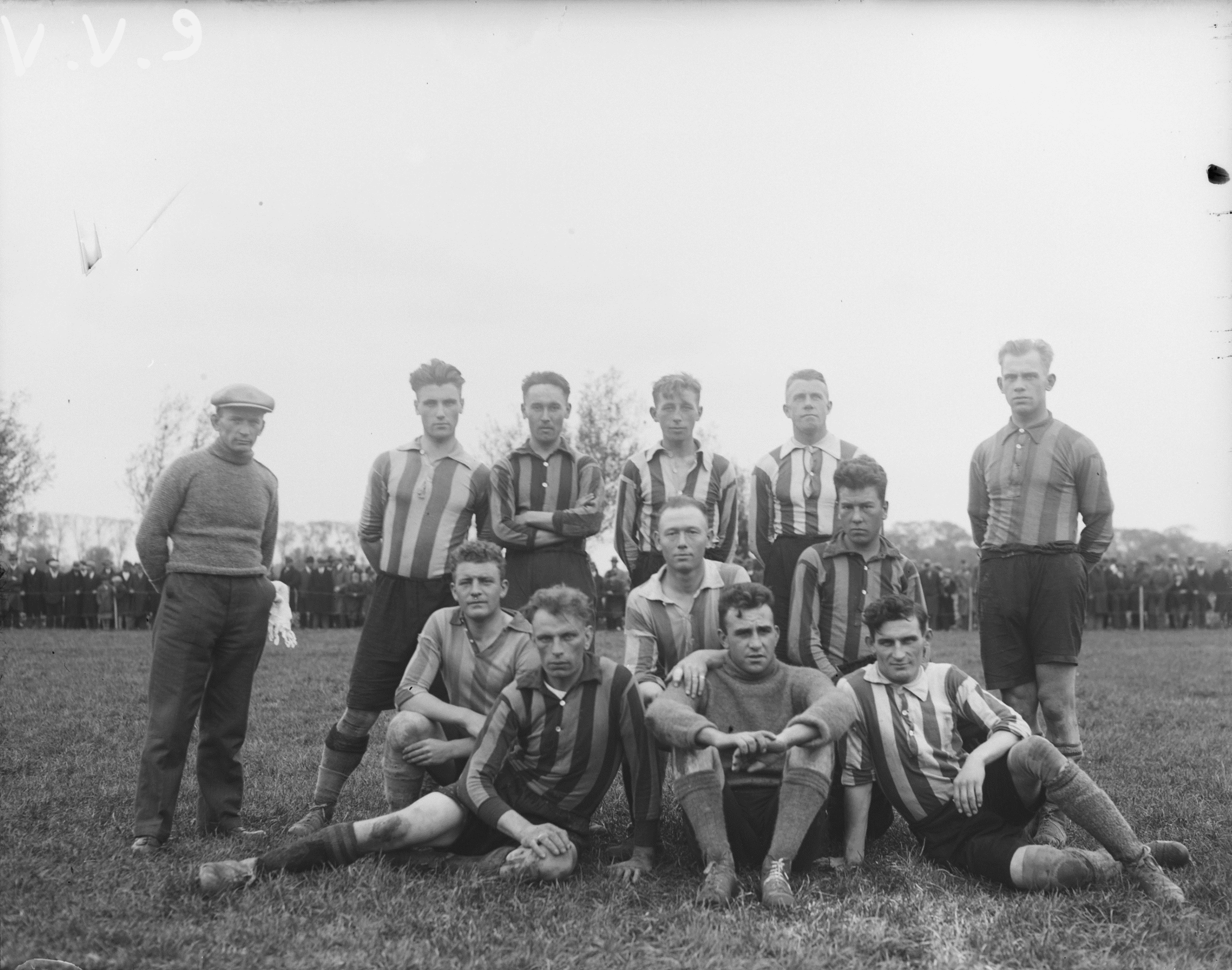 Players of Dutch football club CVV (voetbalclub) in 1930. Maybe the 9th squad if we refer to what is indicated in the upper left corner.